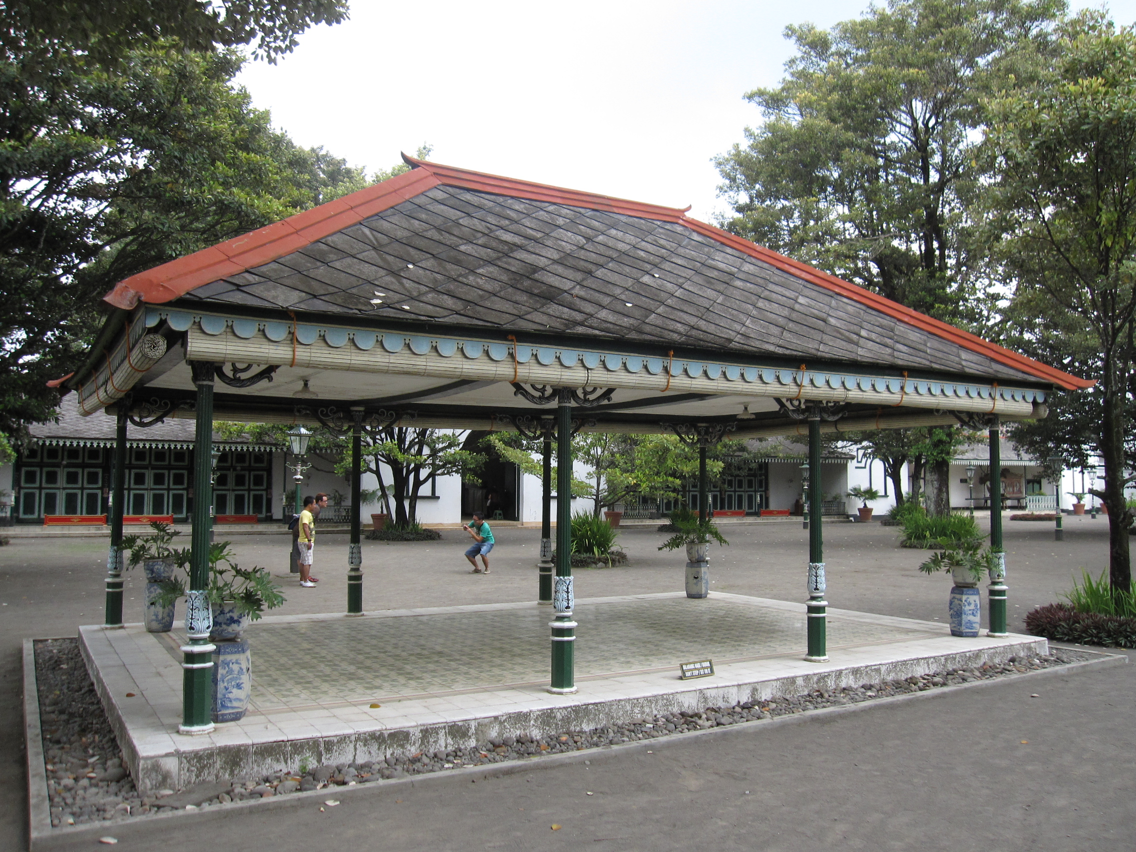 Kraton of Yogyakarta, Indonesia